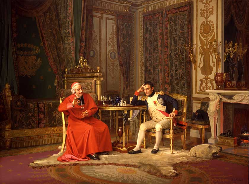 Jean-Georges Vibert. Check – Napoleon and the Cardinal. The Haggin Museum